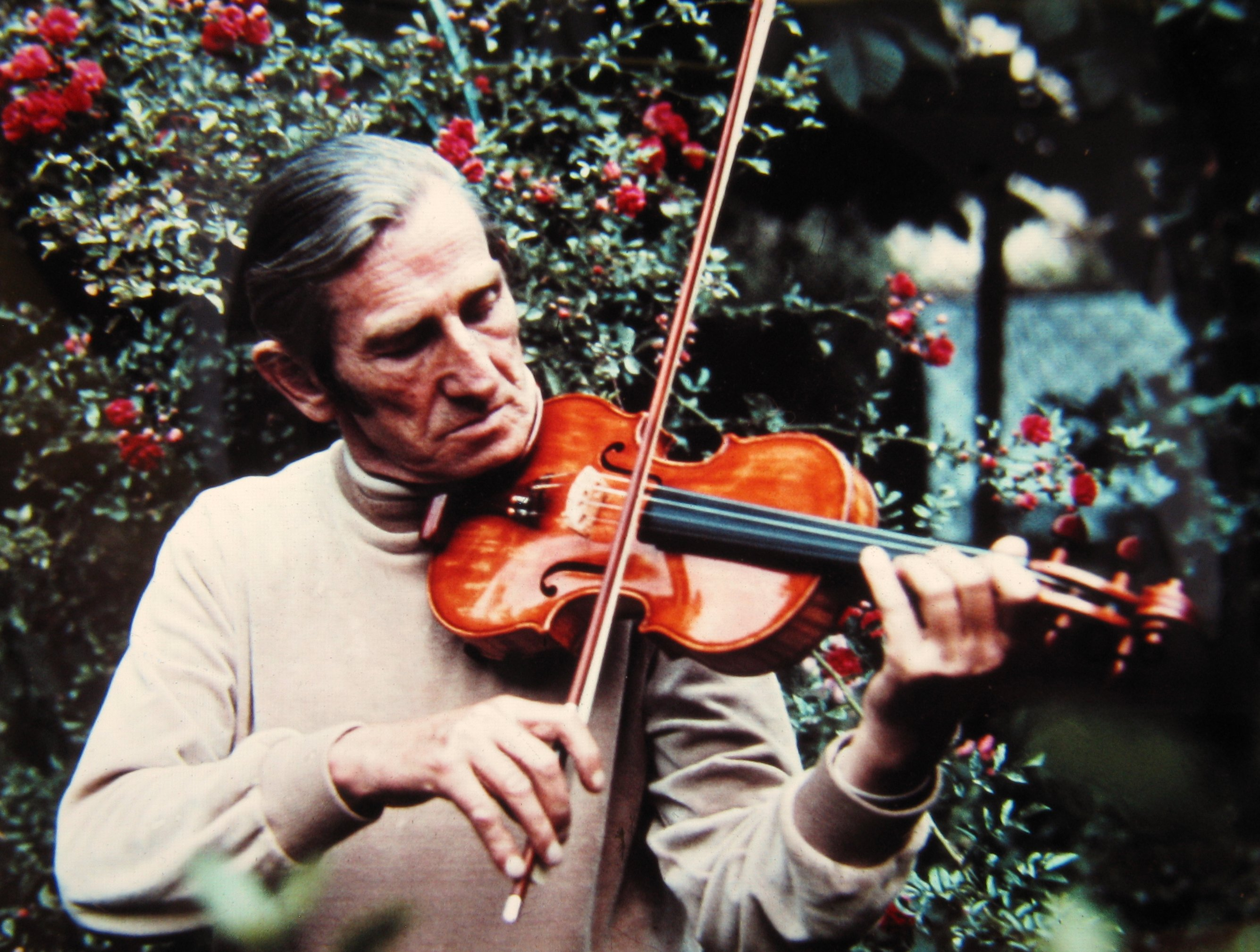 The German luthier Karl Montag